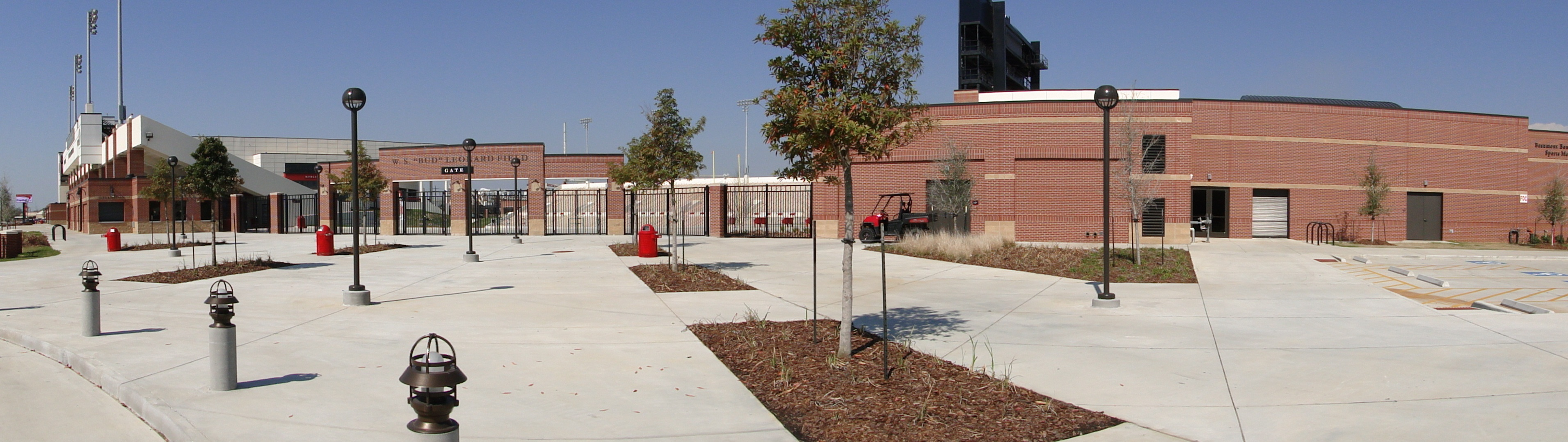 Provost Umphrey Stadium Entrance